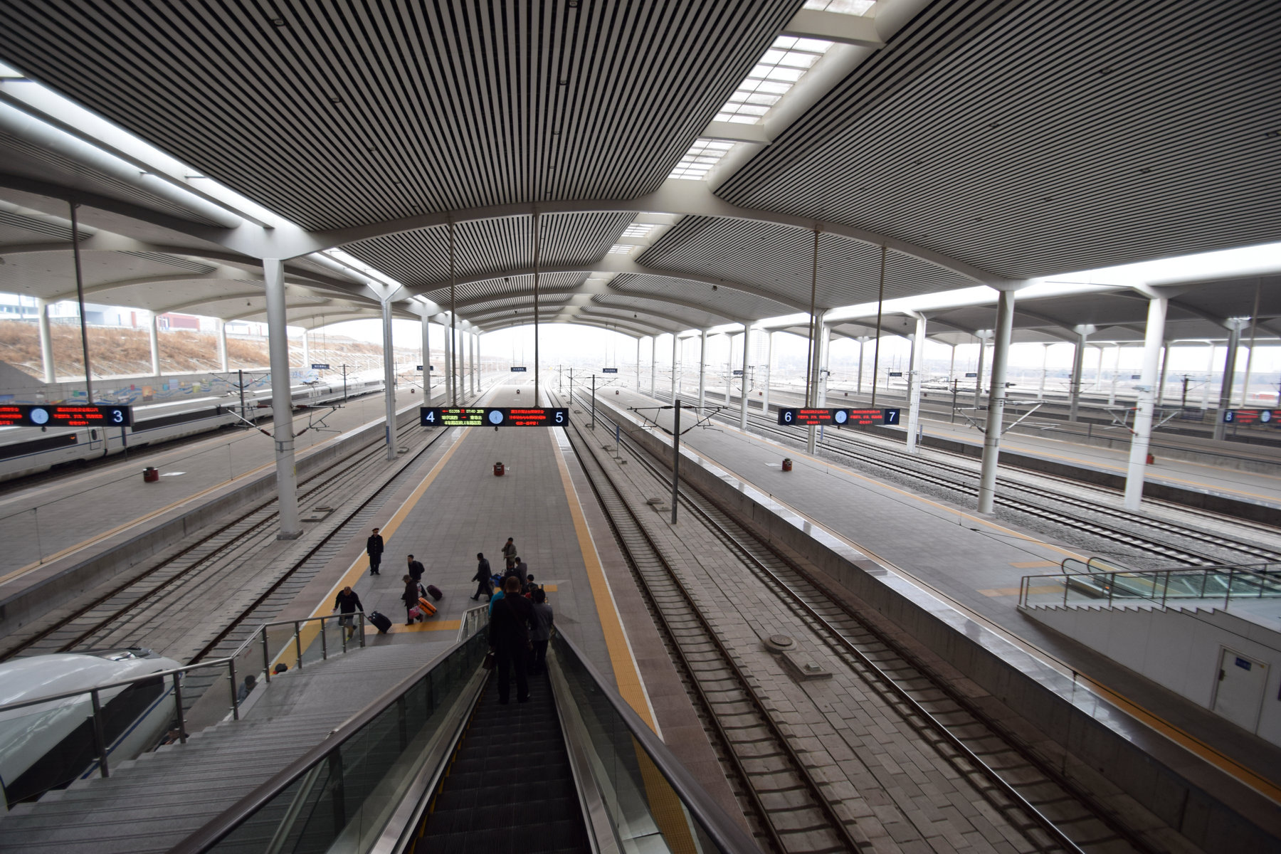 Platforms of Harbin Xi (West) Railway Station